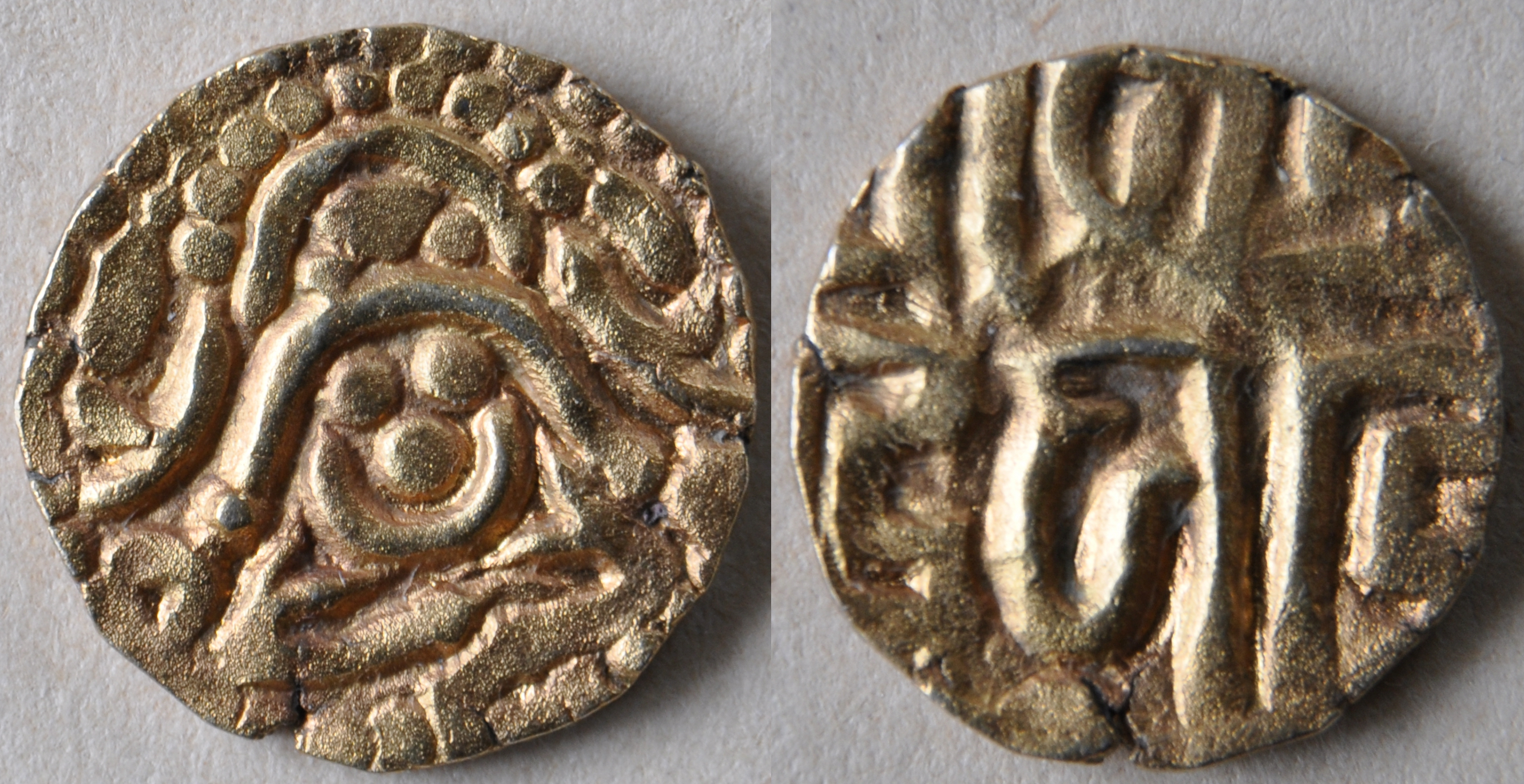 Un statère de Gangeyadeva (vers 1015-1041) et ses successeurs jusqu'à 1211 de l'empire Kalachuri (Haihaya ou Chedi) (capitale : Tripuri) du centre de l'Inde (Rajasthan, Madhya Pradesh). Dimension : 19 mm Poids : 3,84 g Or L'inscription au revers donne le nom du souverain. A l'avers, Lakshmi, la déesse de la fortune, en position assise. Elle possède 4 armes. Référence : Mitchiner NIS 410 Coins of rulers of India A statue of Gangeyadeva (circa 1015-1041) and his successors until 1211 of the Kalachuri (Haihaya or Chedi) empire (capital: Tripuri) in central India (Rajasthan, Madhya Pradesh). Dimension: 19 mm Weight: 3.84 g Gold The inscription on the reverse gives the name of the sovereign. On the obverse, Lakshmi, the goddess of fortune, in a sitting position. She has 4 weapons. Reference: Mitchiner NIS 410